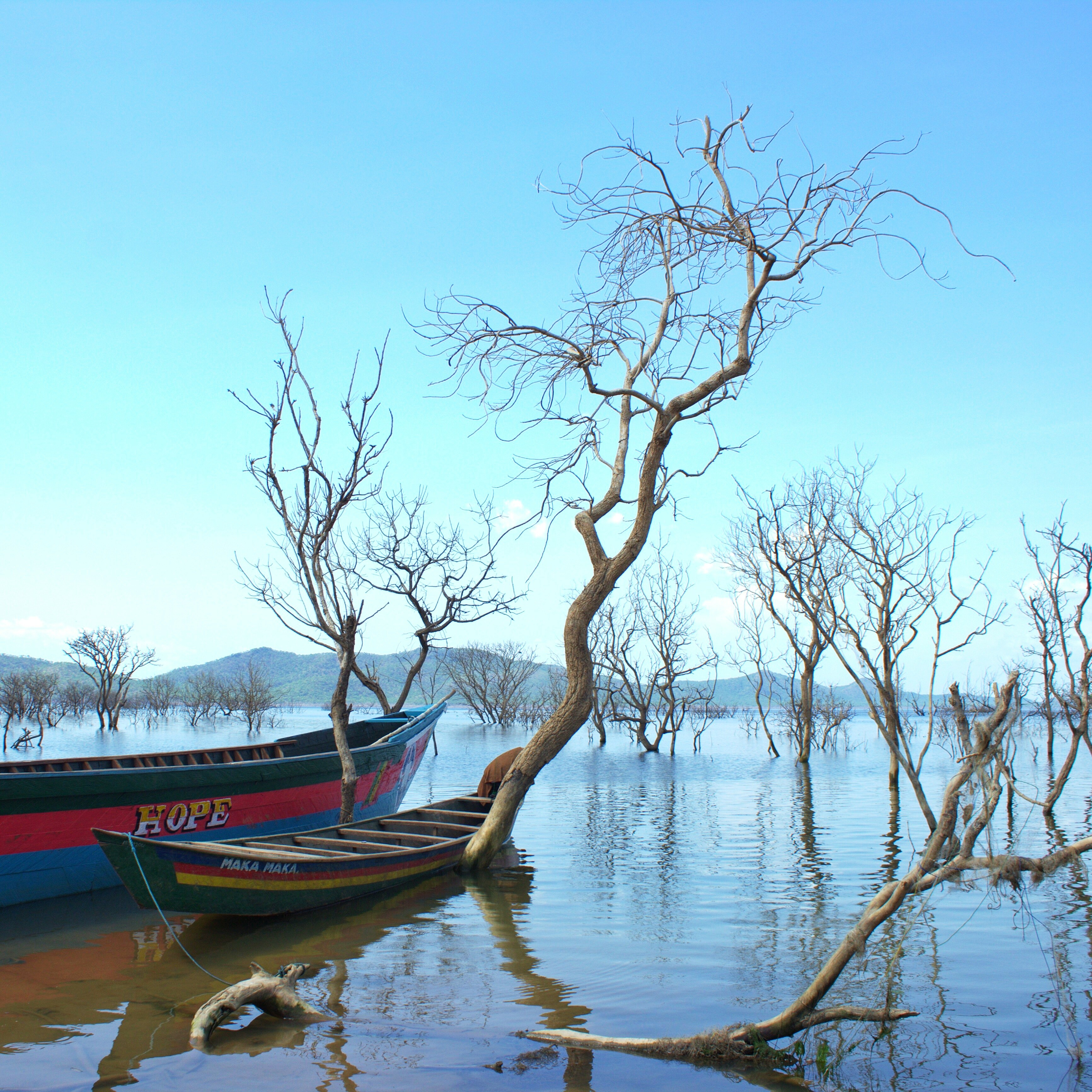 The bui bayou is a wet land found in the brong ahafo region of Ghana. Beautiful water body that previously hosted hippos but due to the present day construction of a dam, they retreated further away. This is a file of Ghanaian Natural Heritage with ID